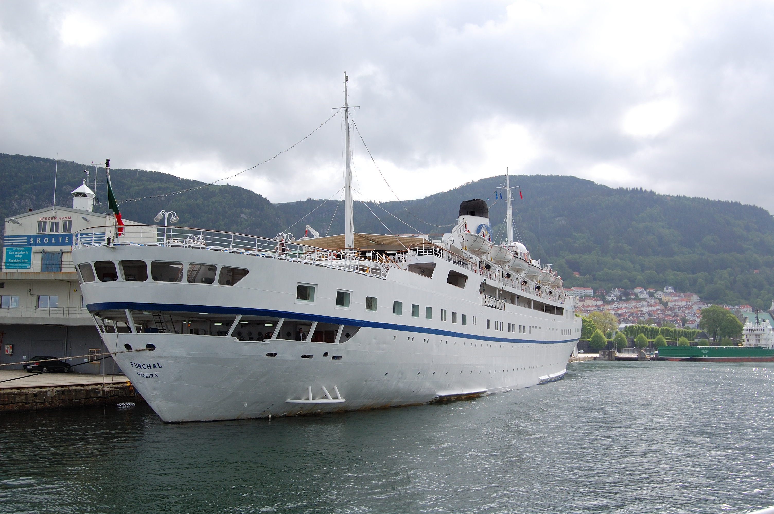 Portuguese cruise ship Funchal (IMO 5124162) in Bergen.